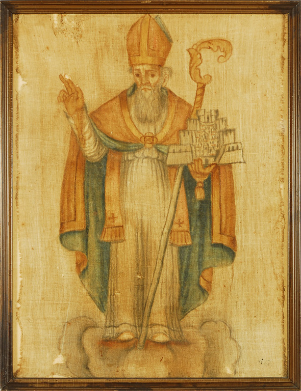 Cut out and framed middle portion from an original civil ensign from the Republic of Ragusa over 200 years old Srpskohrvatski / српскохрватски: Izrezana i uokvirena sredina originalnog pomorskog barjaka Dubrovačke Republike starog više od 200 god.